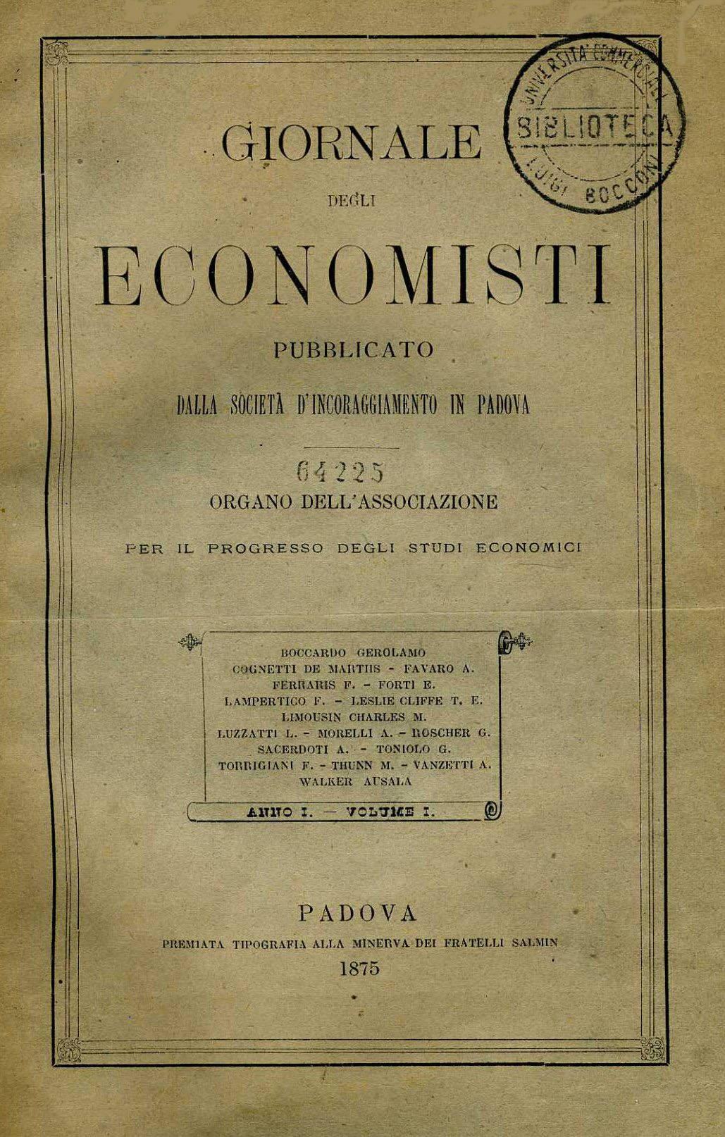 Cover 1875 Giornale degli economisti